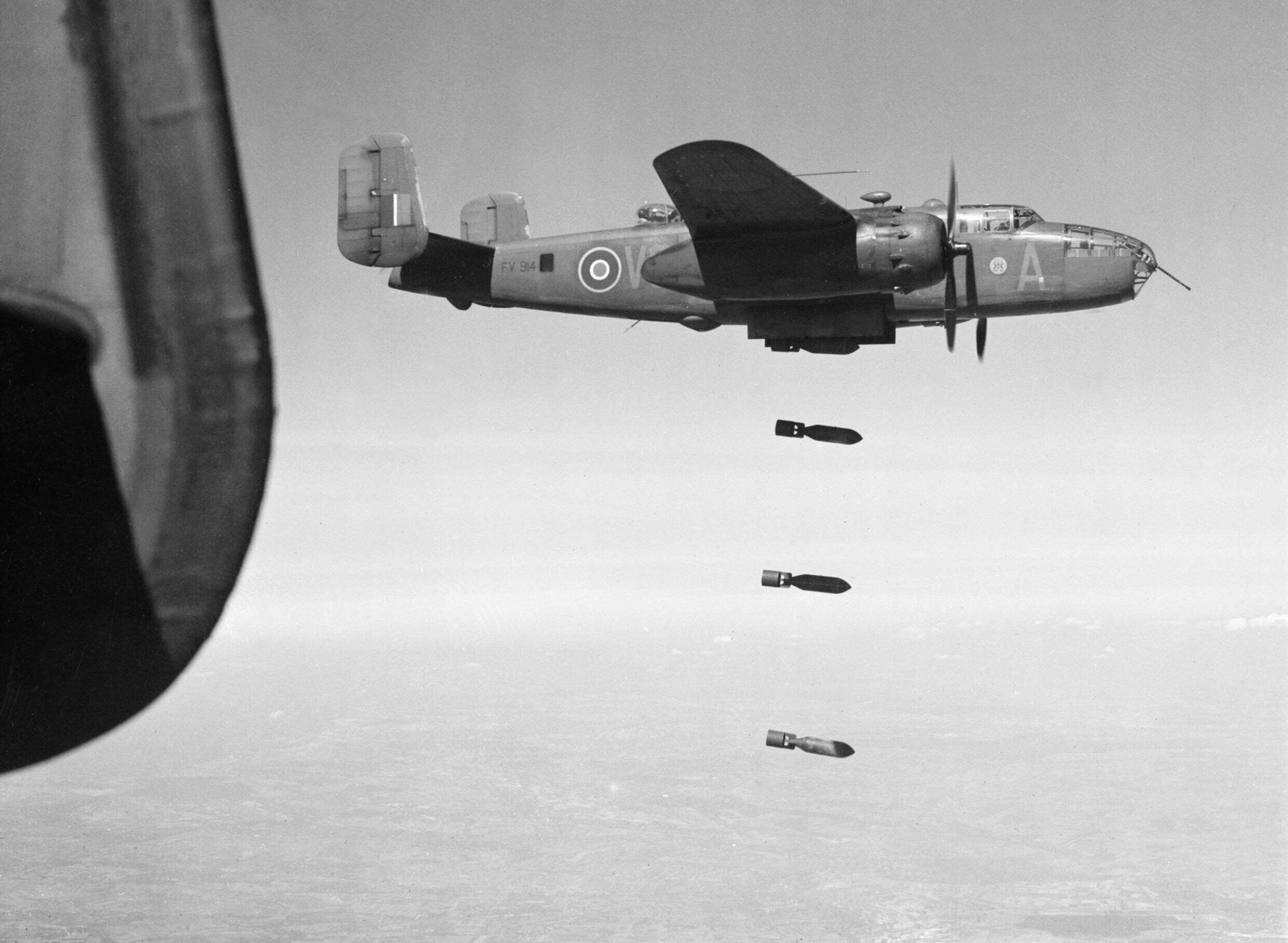 American Aircraft in Royal Air Force Service, 1939-1945- North American Na-82 Mitchell. Mitchell Mark II, FV914 ‘VO-A’, of No. 98 Squadron RAF based at Dunsfold, Surrey, unloading its bomb load over a flying-bomb launching site in northern France, during a 'Noball' operation.